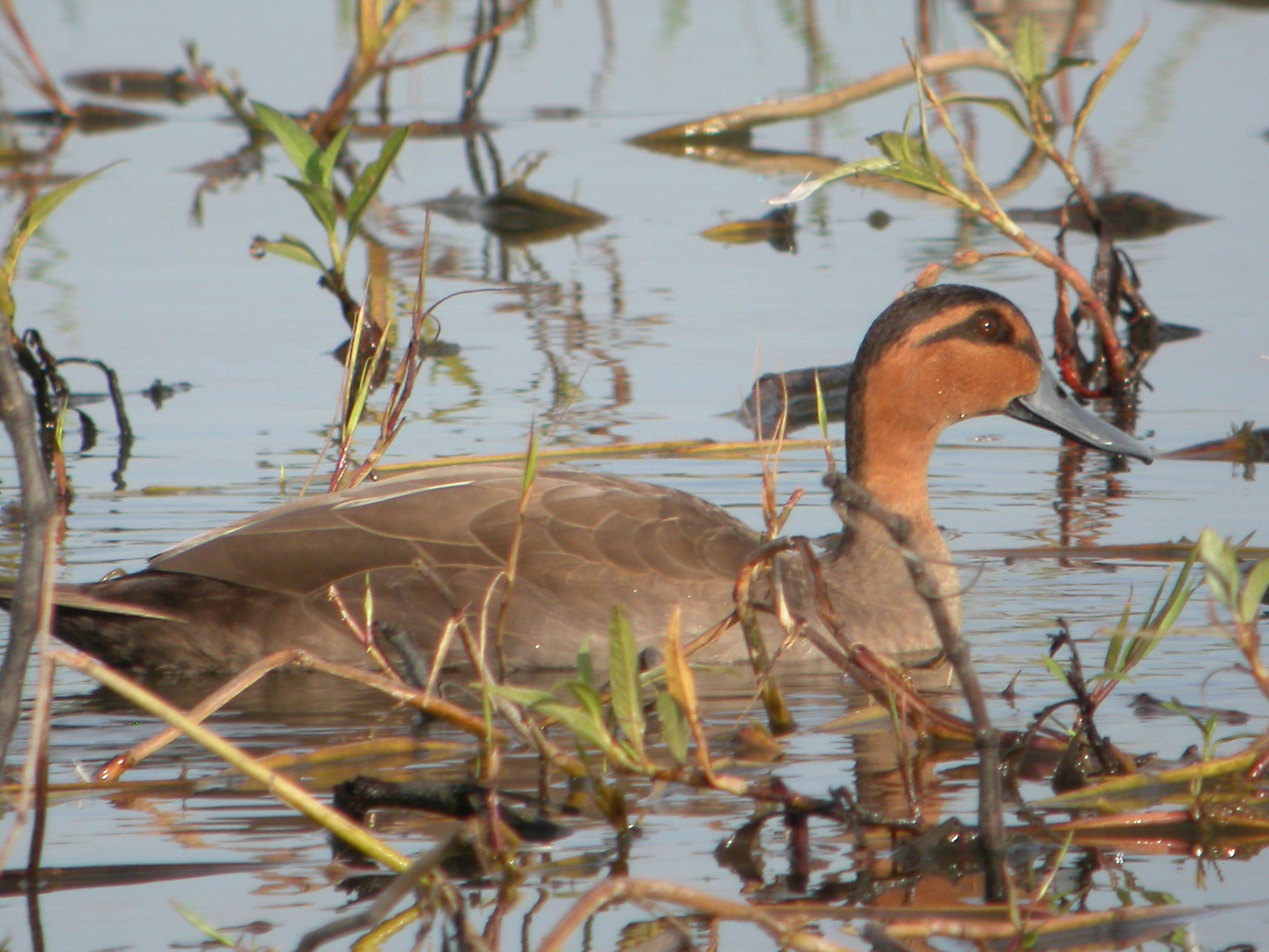 Philippine duck (Anas luzonica) in Candaba marsh, Luzon, the Philippines